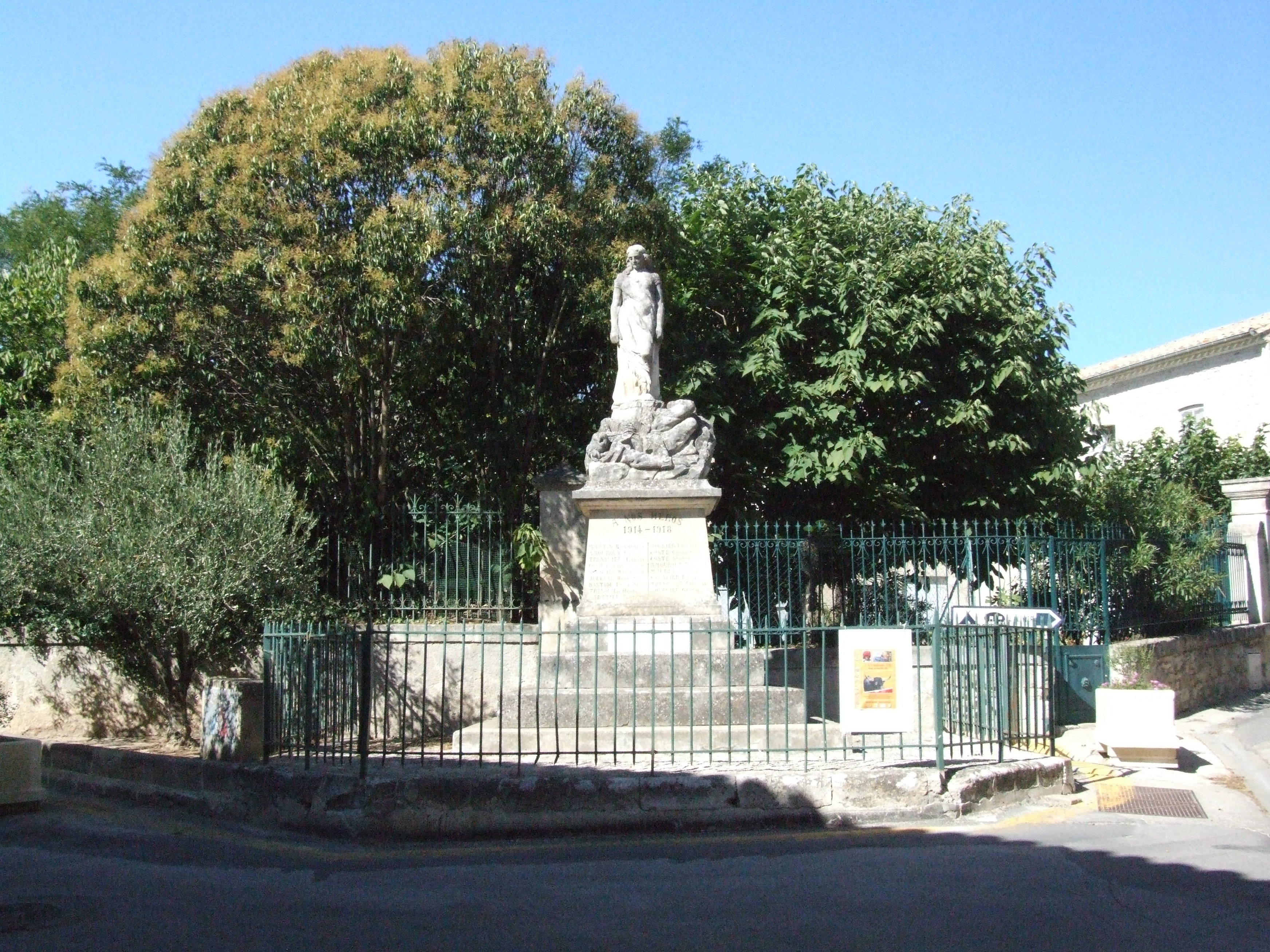 The commune of Junas, ( post code is F30250 and INSEE 30136) is situated north of the River Vidourle, south of Sommières in the departement of Gard. in the region Languedoc-Roussillon in southern France.The mediaeval village centre is similar to its neighbours, but the commune is noted for its quarry which dates from Roman times. War memorial